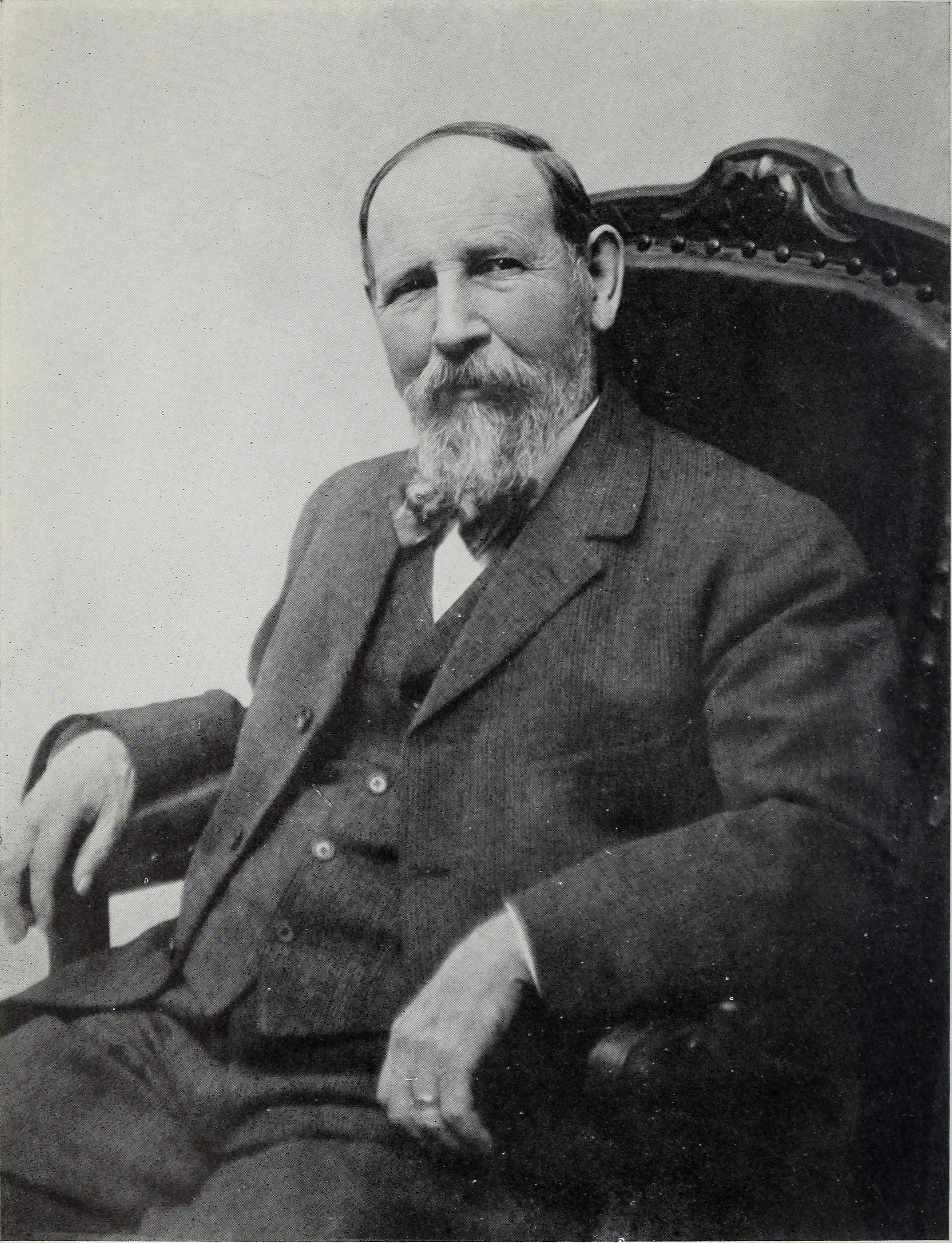 Title: Annual report of the trustees of the American Museum of Natural History for the year Identifier: annualreportoft521920amer Year: 1917 (1910s) Authors: American Museum of Natural History Subjects: American Museum of Natural History; Natural history museums Publisher: New York : [American Museum of Natural History] Text Appearing Before Image: ' Text Appearing After Image: Joel Asaph Allen our senior curator Who Has Given More Than Thirty-five Years of Service. Recently Appointed Honorary Curator.